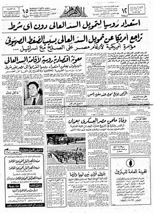 Al-Ahram Newspaper During Suez Crisis